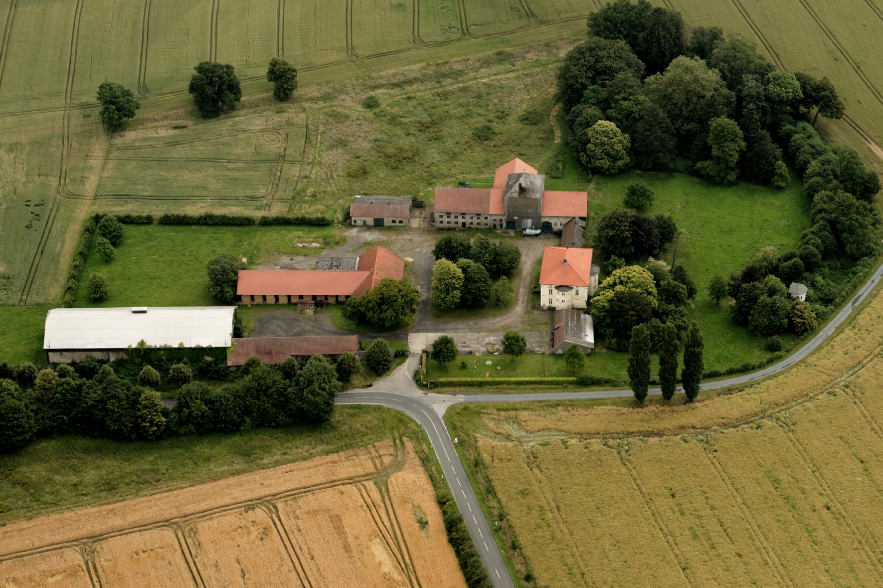 Gut/Kloster Scheda in Wickede (Ruhr)-Wiehagen. Fotoflug Sauerland Nord. The making of this document was supported by the Community-Budget of Wikimedia Germany.